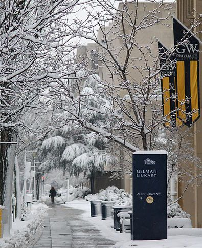 George Washington University's Gelman Library located at 2130 H Street, NW in the Foggy Bottom neighborhood of Washington, D.C.- detail.